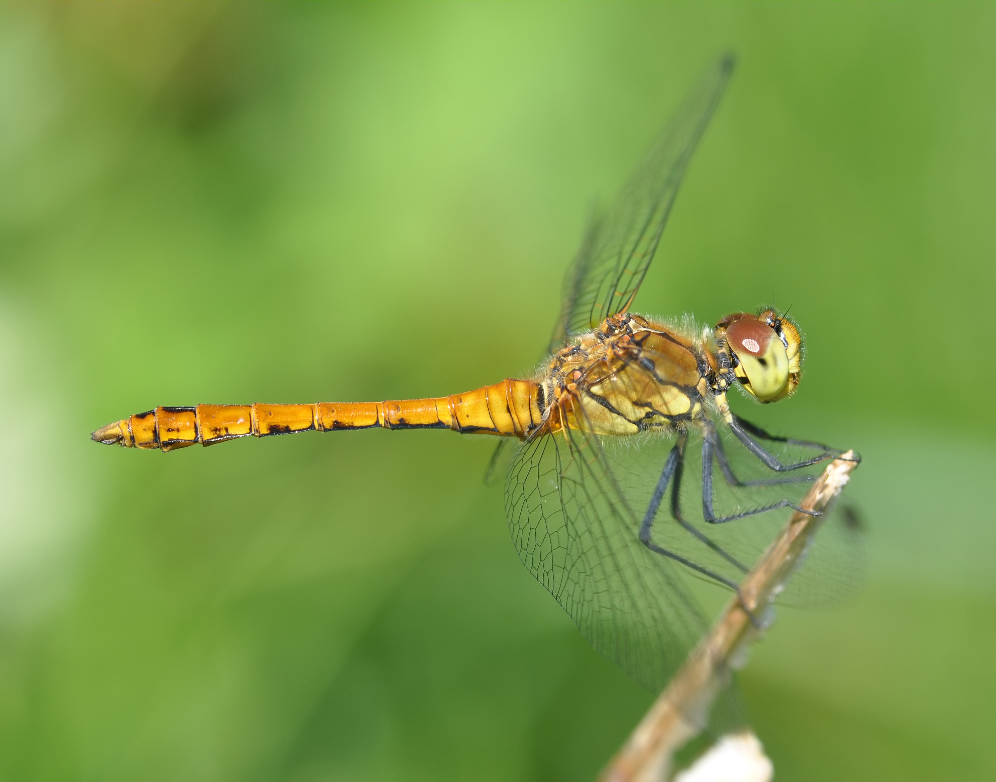 Male Ruddy Darter (Sympetrum sanguineum) near the old airstrip, Frankfurt, Germany.